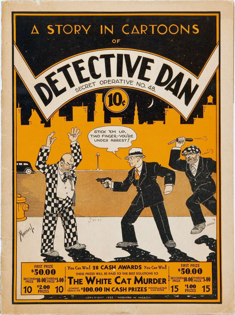 The cover of Detective Dan: Secret Operative 48, by Norman W. Marsh, published by Humor Publishing (aka Consolidated Book Publishers). The copyright for this work was registered on May 12, 1933 to Norman Marsh. The copyright was due for renewal in 1961 (per the Copyright Act of 1909), but no renewal application was filed, and therefore this book fell into the public domain.